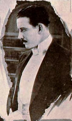 American actor Philo McCullough from an advertisement for the American drama film A Splendid Hazard (1920), on page 4599 of the June 5, 1920 Motion Picture News.